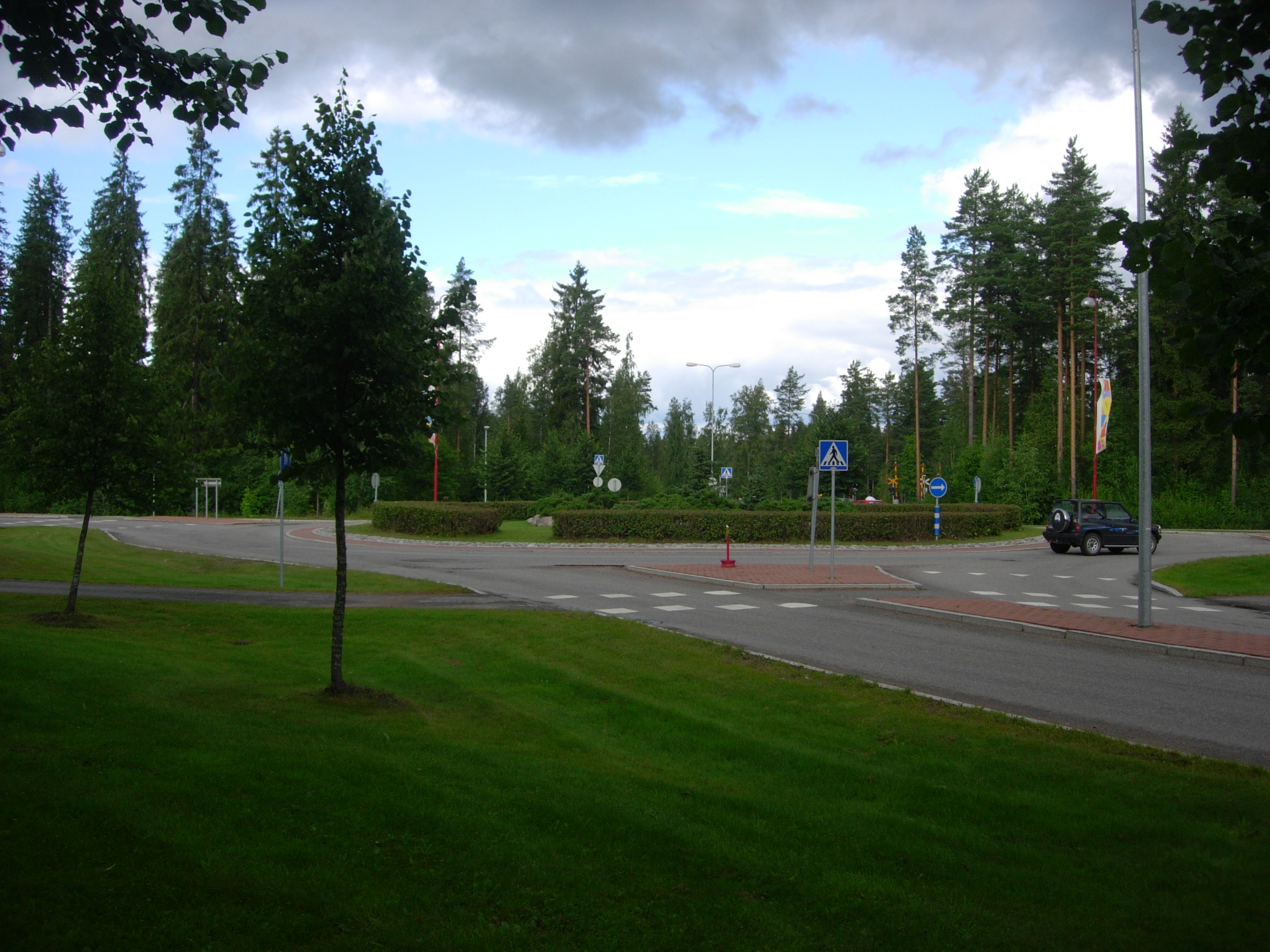 Roundabout of Satakunnantie (regional road 347), Pakkaajankatu, Valtatie (regional road 347) and Pakkaajankatu in Mänttä-Vilppula, Finland